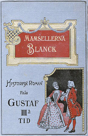 Book cover: Mamsellerna Blanck by Karl Benzon (1862-1914)